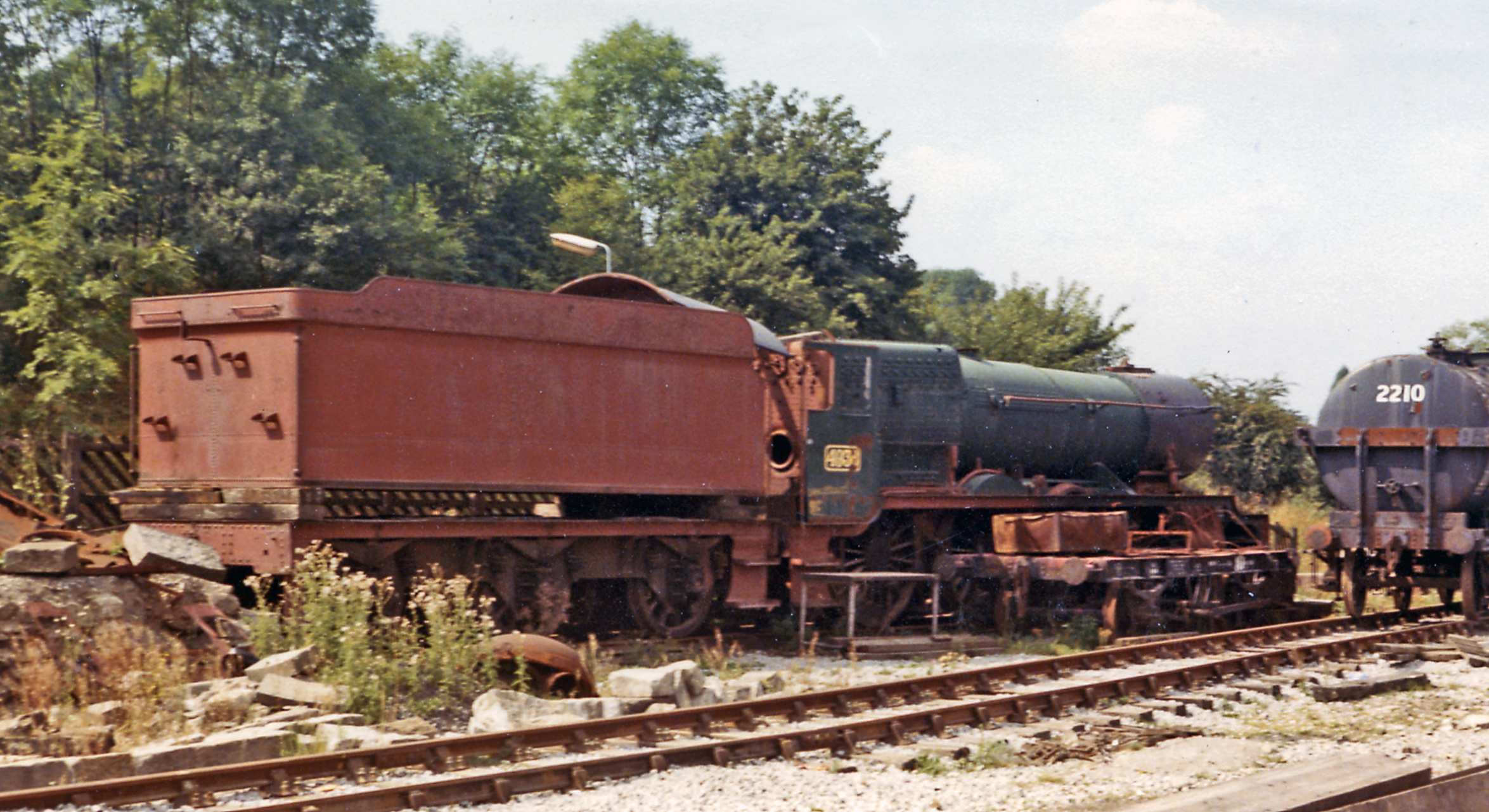 Ex-GWR 'Hall' 4-6-0 under restoration at Matlock, Peak Rail. Having been recovered from Woodham's Scrapyard at Barry in 1981, Collett 4-6-0 No. 4936 'Kinlet Hall' is seen here in 1983 under restoration at the then embryonic Peak Rail Society establishment at Matlock, just west of Matlock BR station on the Derby - Manchester Peak Main line (closed beyond Matlock in 3/67). No. 4936 was built at Swindon in 6/29 and withdrawn by BR in 1/64. It was moved from Matlock in 1985 and has been operated since then from various heritage centres: it is currently at Tyseley Locomotive Works, having undergone a major overhaul.